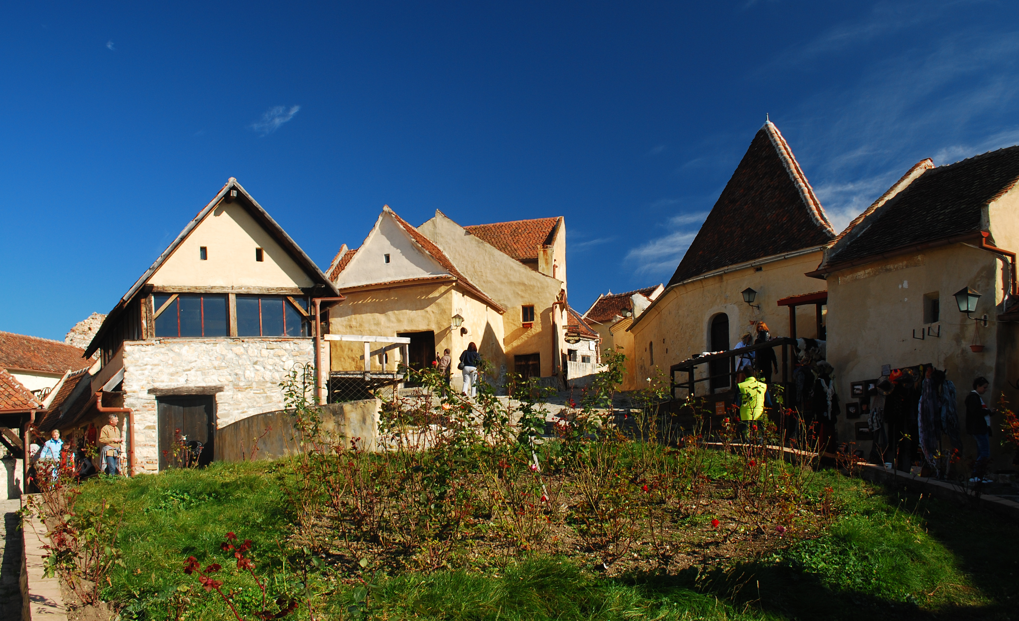 Inside the Râşnov fort, Braşov County, Romania